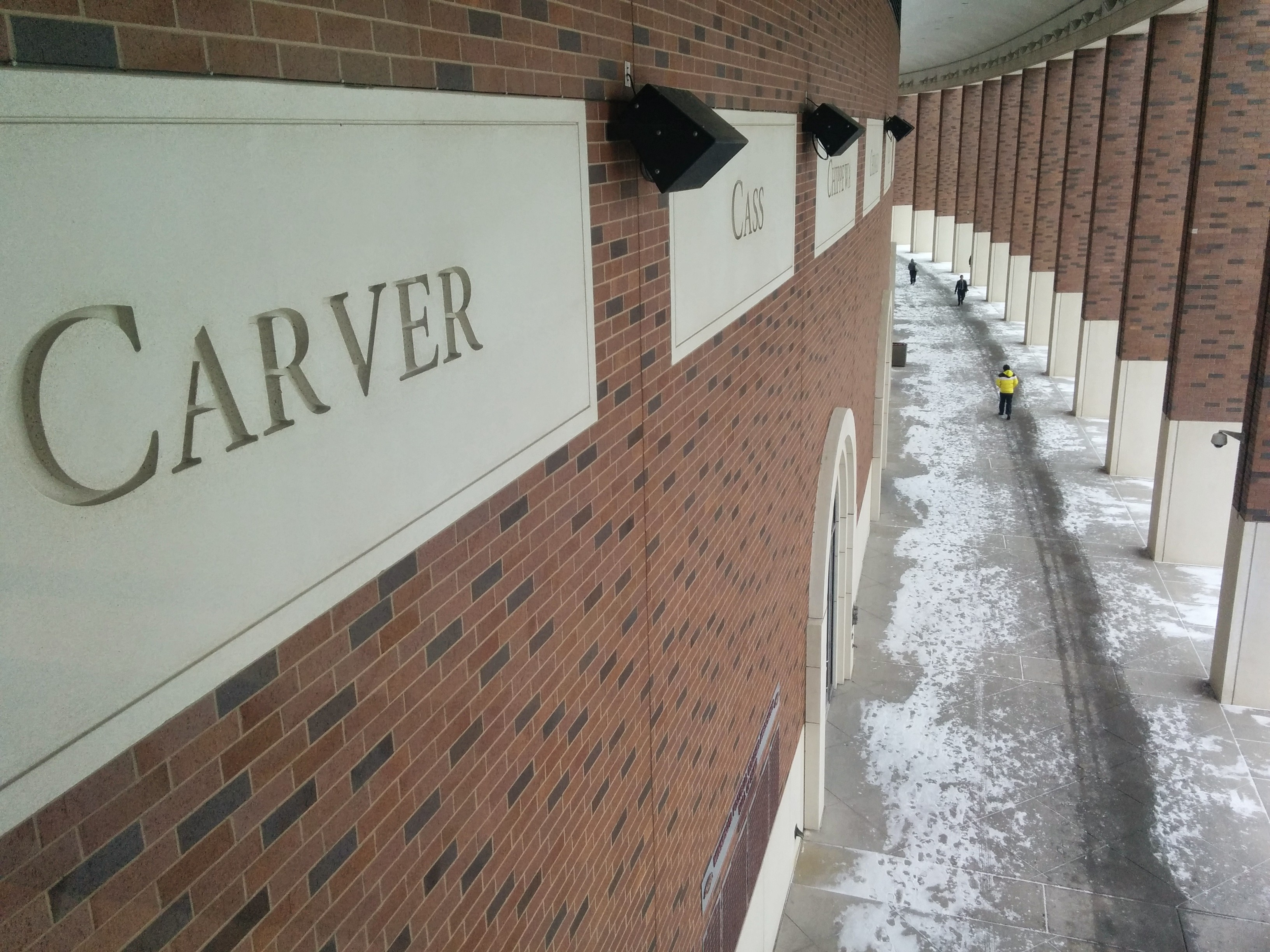 TCF Bank Stadium in winter. University of Minnesota in Minneapolis, Minnesota.